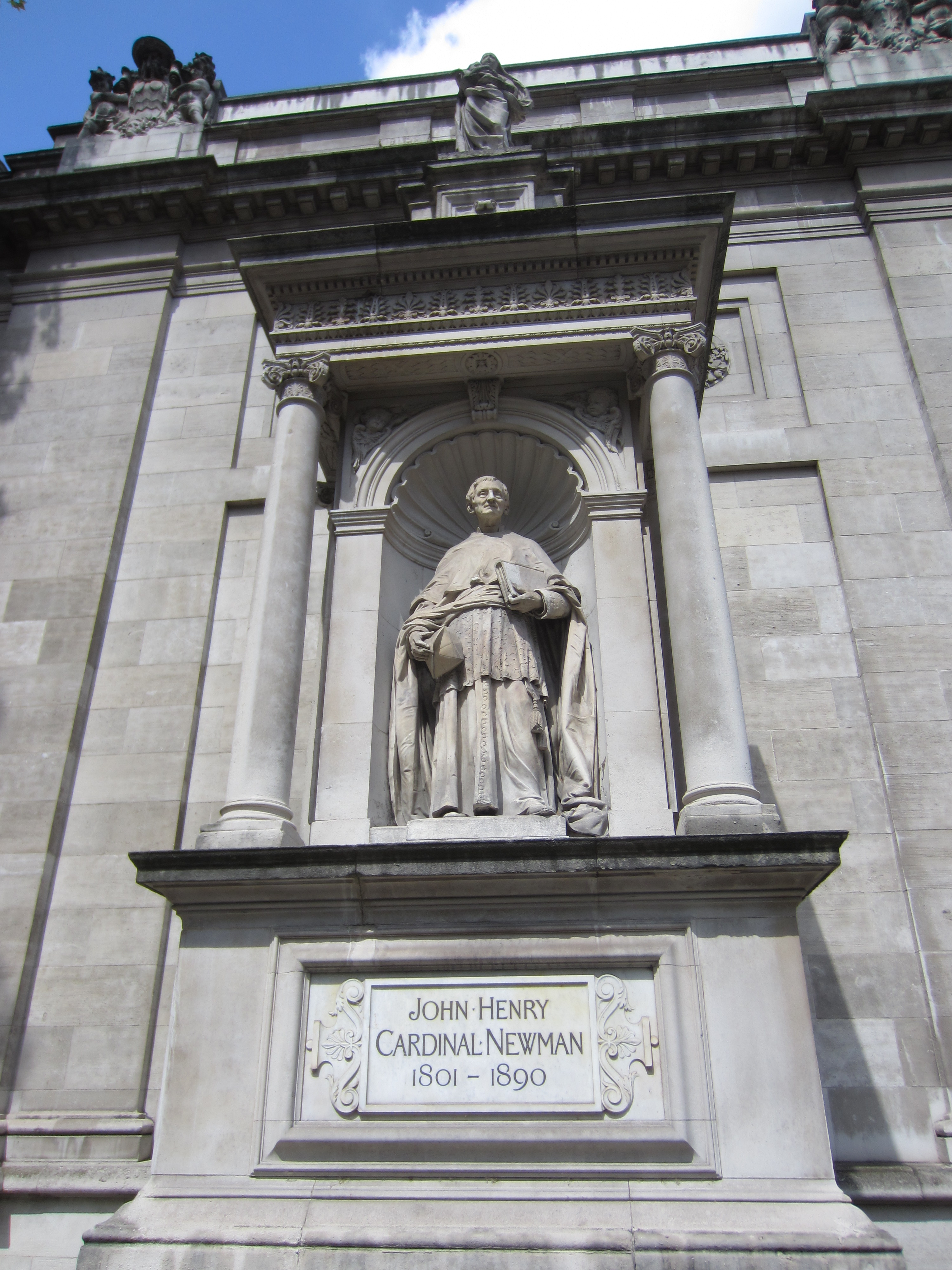 London, United Kingdom in August 2014